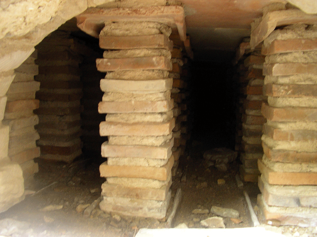 Hypocaust floor under changing room of the bath house at Great Witcombe Roman Villa.